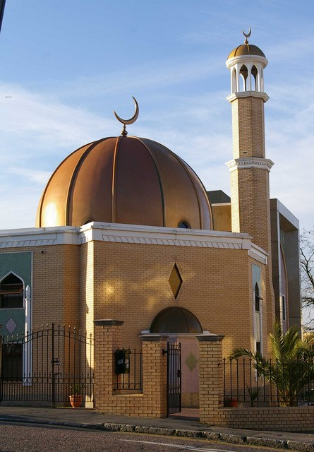 London Islamic Cultural Society , Wightman Road